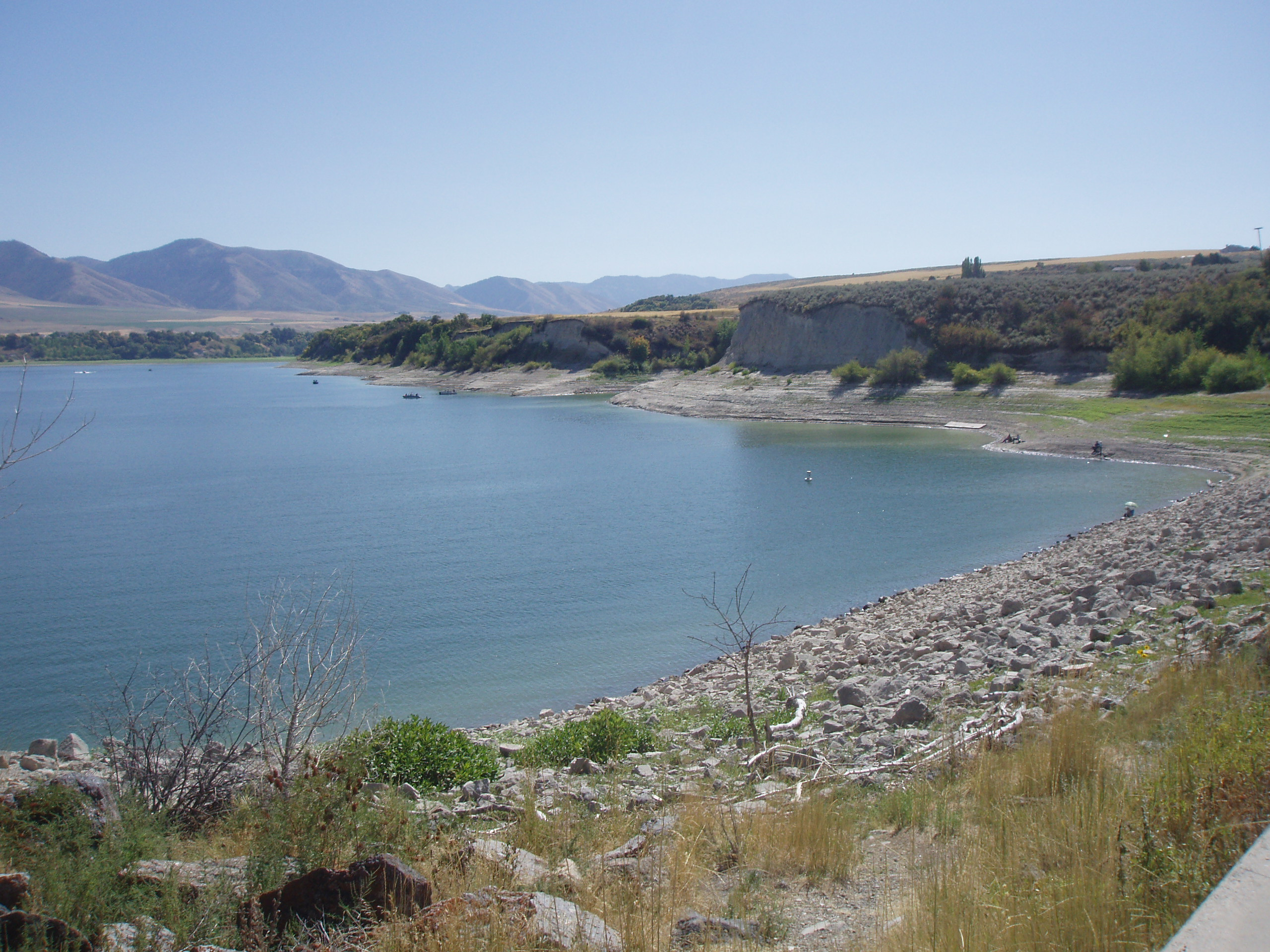 Hyrum Reservoir, a state park near Hyrum, Utah, United States.